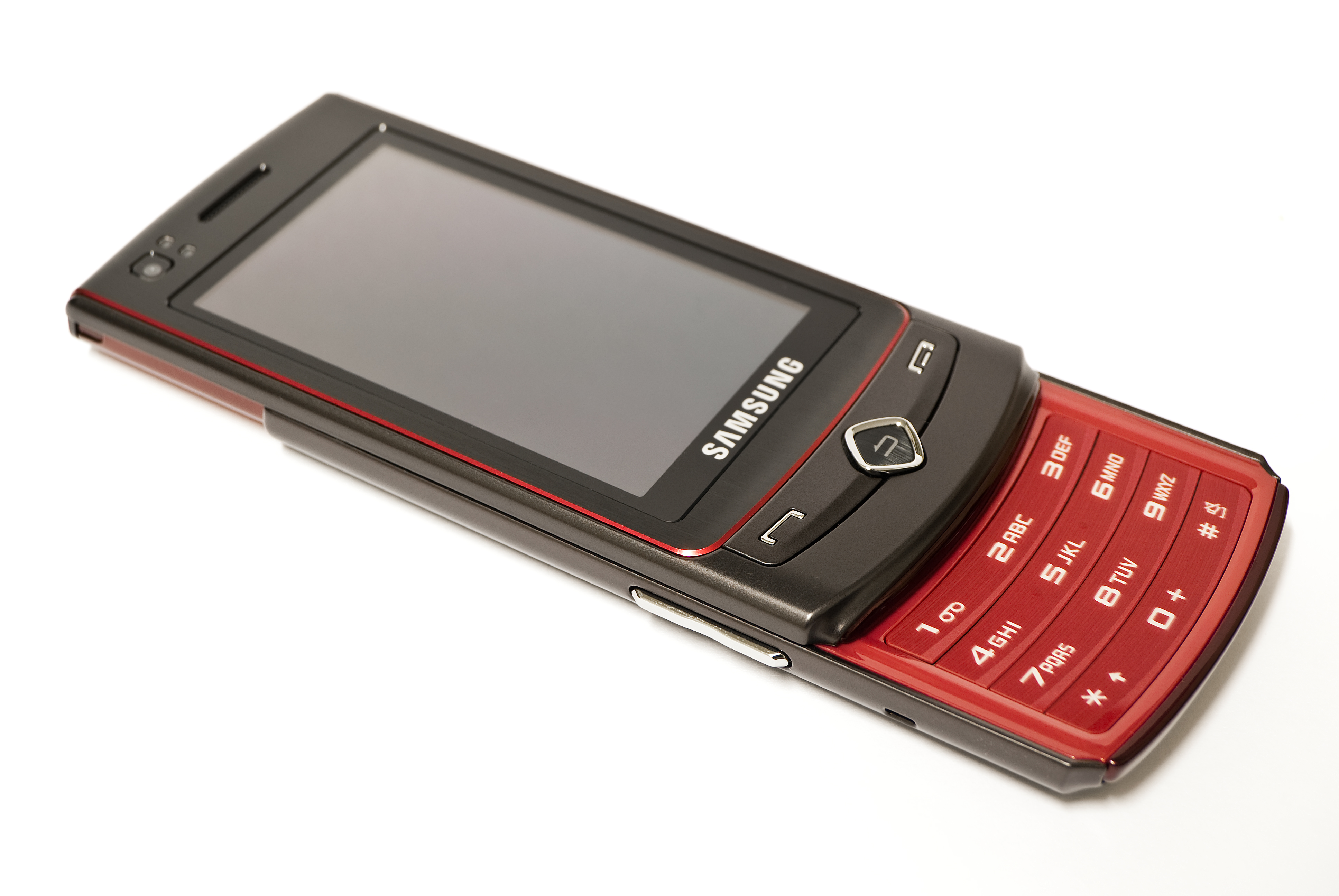 Photograph showing the keypad of a Samsung Tocco Ultra S8300 Mobile Phone.